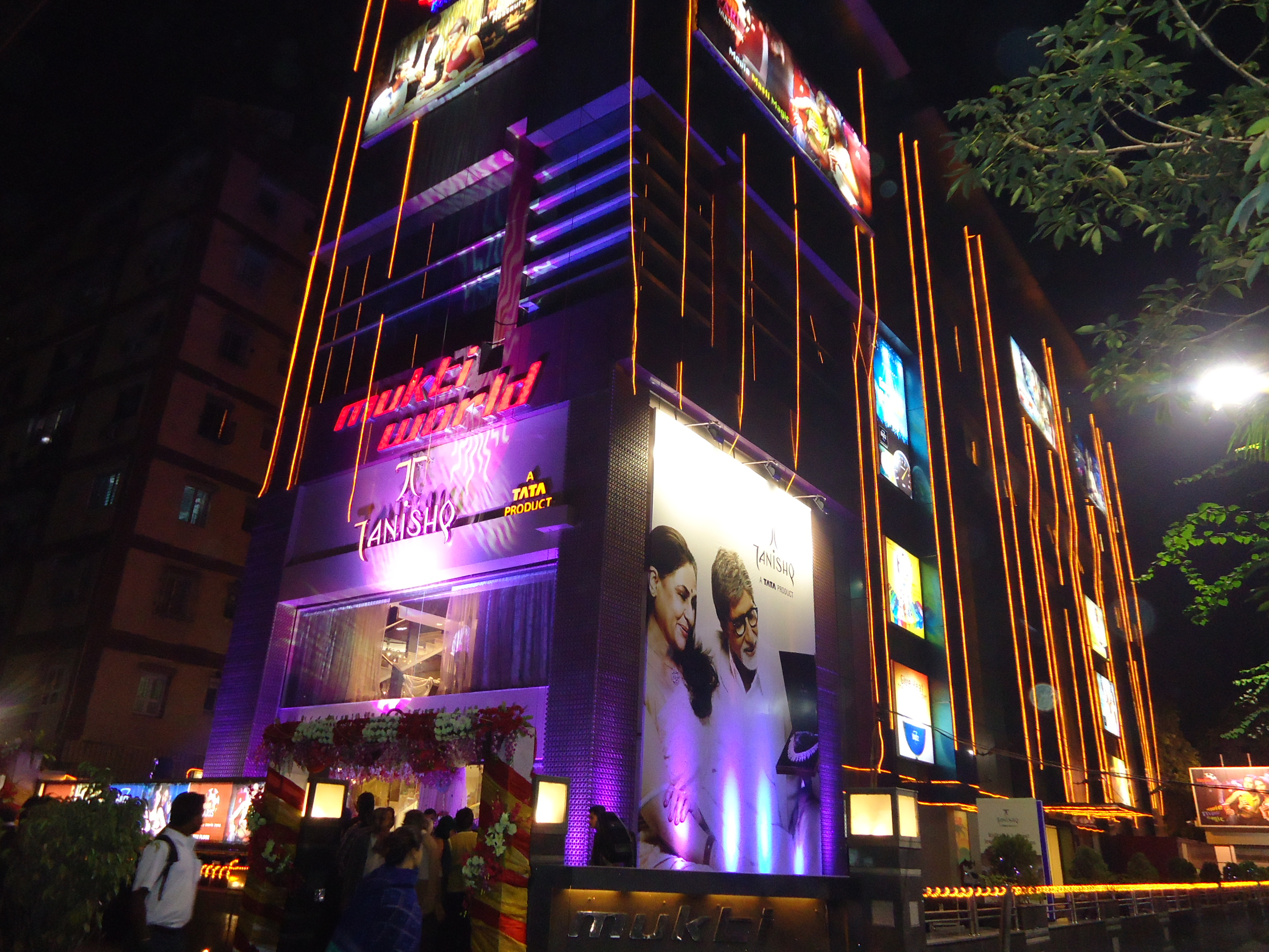 Glittering Mukti World Mall, Ballygunge